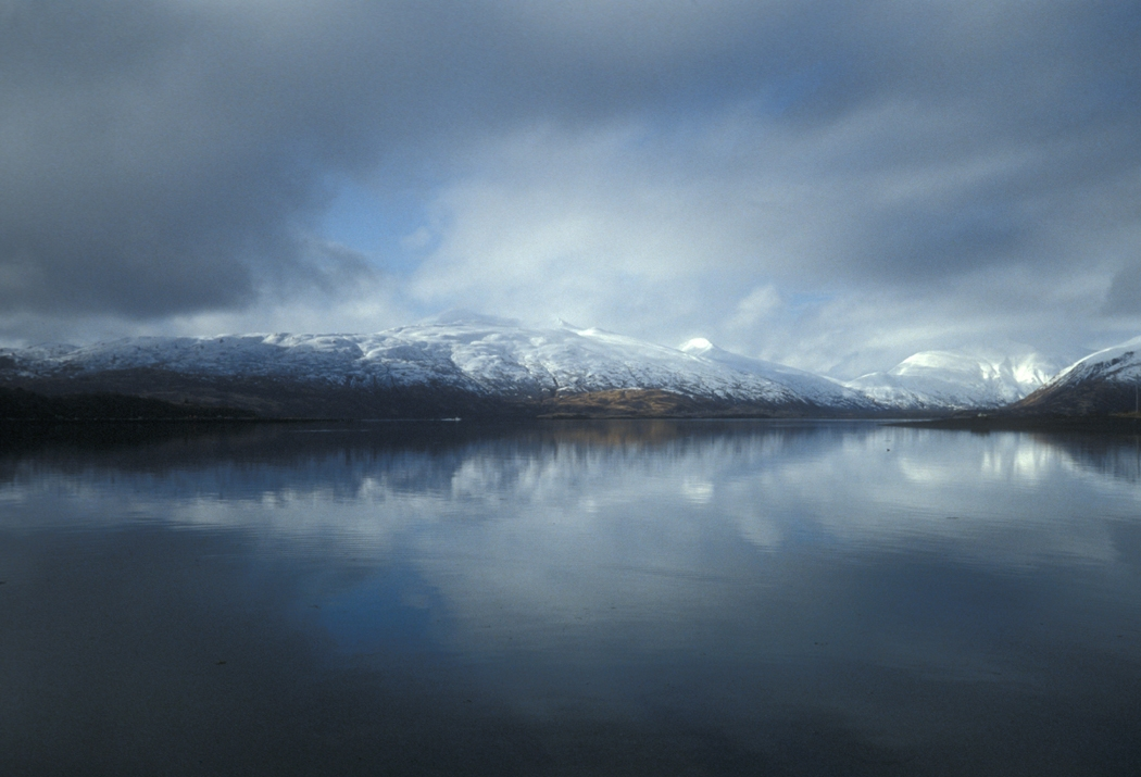 The play of light and clouds creates an eerie effect over Womens Bay on Kodiak Island in the Alaska Maritime National Wildlife Refuge. (John Martin/USFWS).